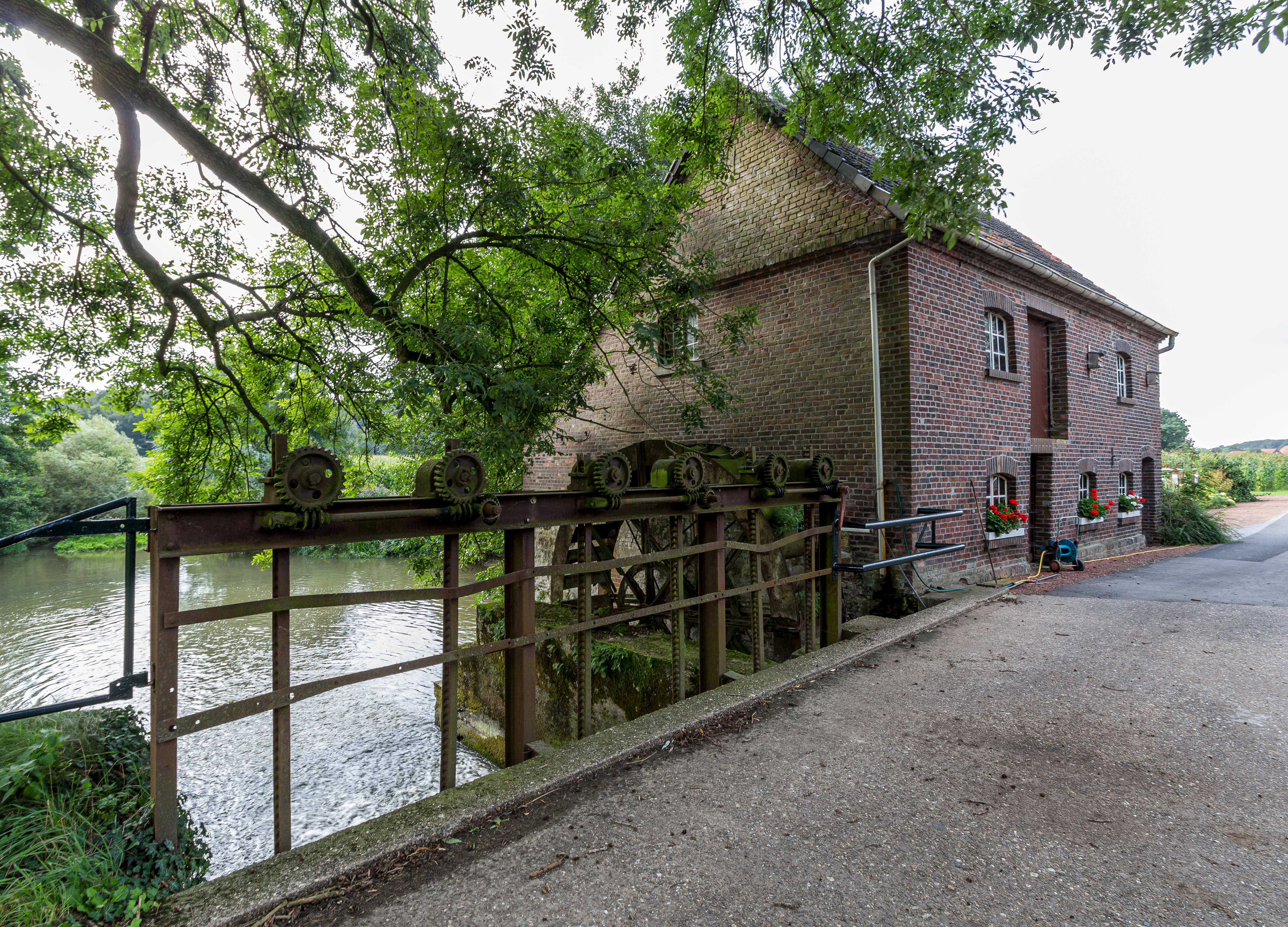 Watermill, Rödder, Kirchspiel, Dülmen, North Rhine-Westphalia, Germany This image shows a heritage building in Germany, located in the North Rhine-Westphalian city Dülmen (no. 115).